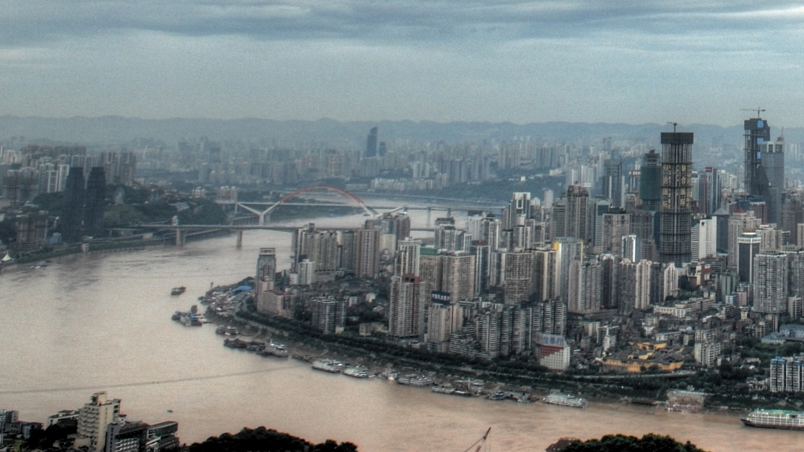 The skyline of Chongqing, Photographed at Nanshan.